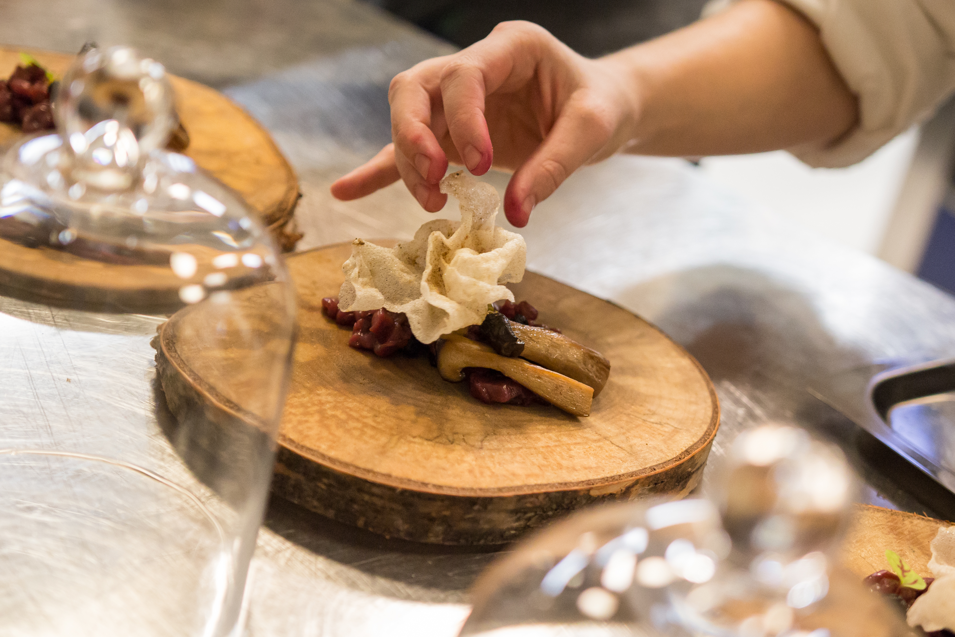 Students at Umeå University School of Restaurant and Culinary Arts cook and serve an eight course dinner. Photo by Ulrika Bergfors Kriström.